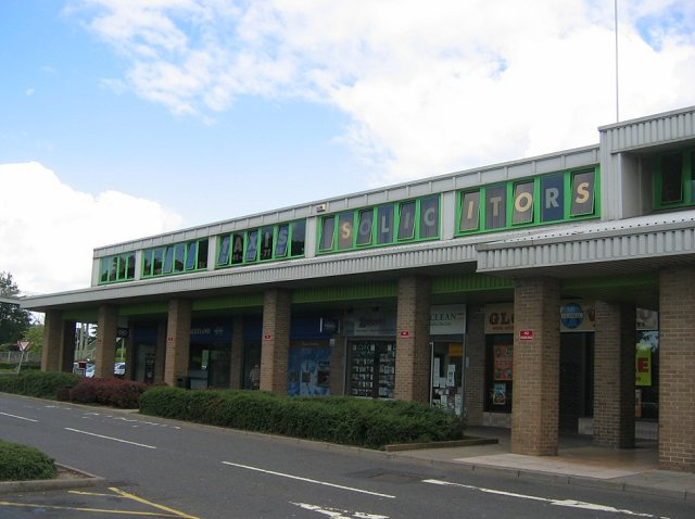 Bridgewater Centre. It's Erskine, there is a bridge, it goes over water - wonderfully imaginative naming typical of a newly planted community. Usual dull array of shops - but a useful supermarket to get some food for the hill.